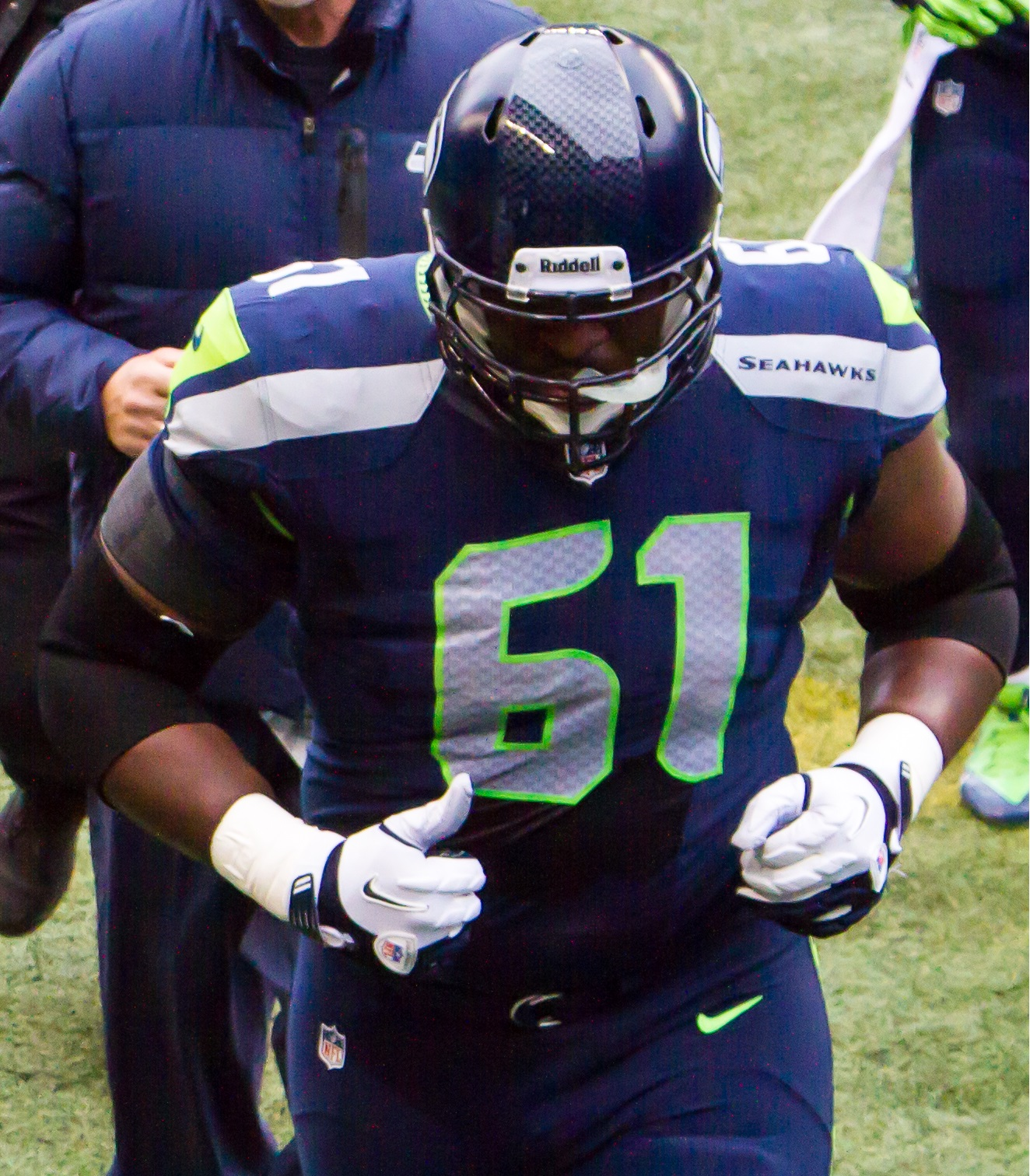 Lemuel Jeanpierre, Seahawks vs Rams 12.29.13